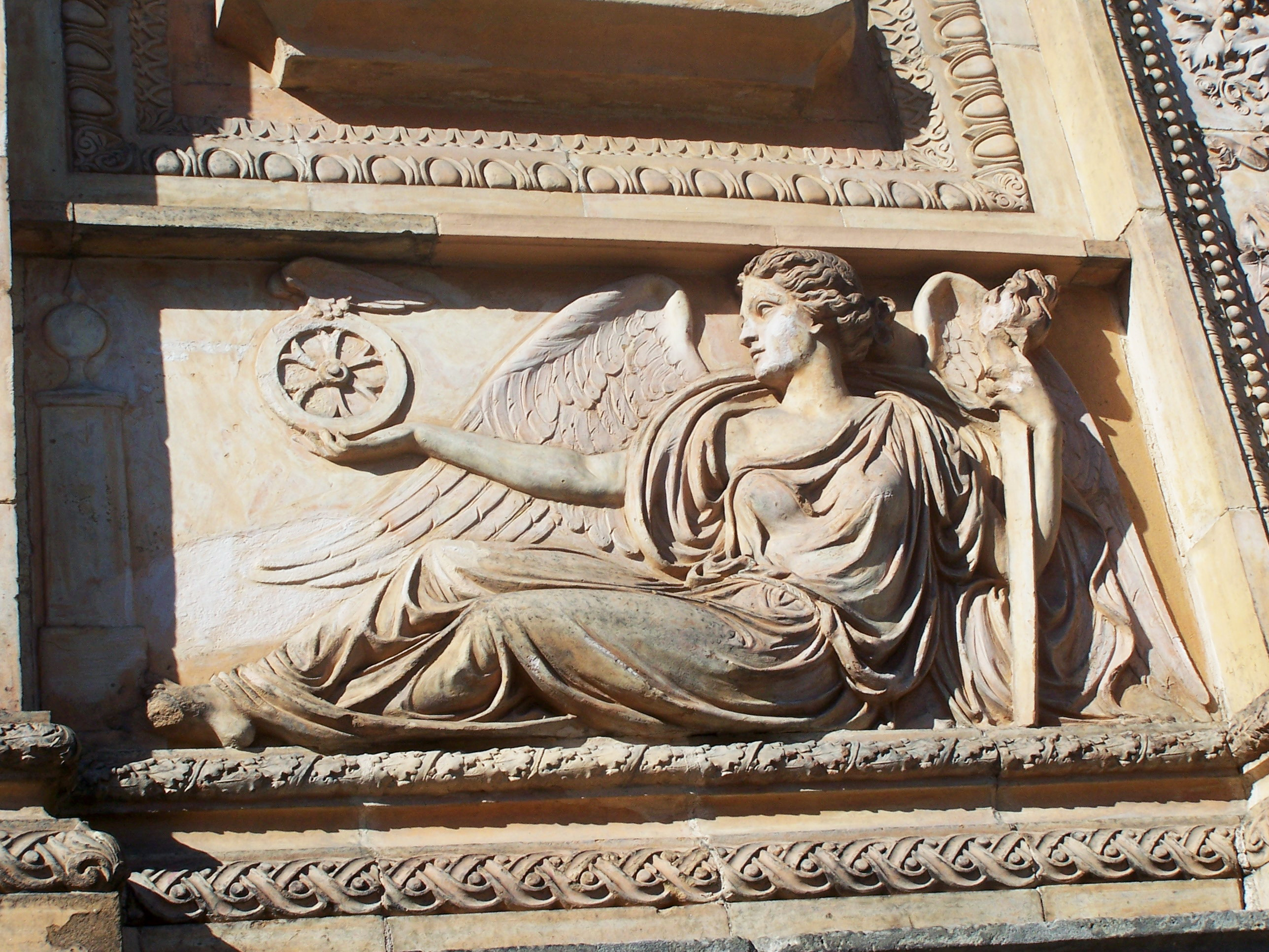 Triumphal Gate at the Mühlenberg, right side, antique-style relief illustrate Prussia´s technological progress (railway)